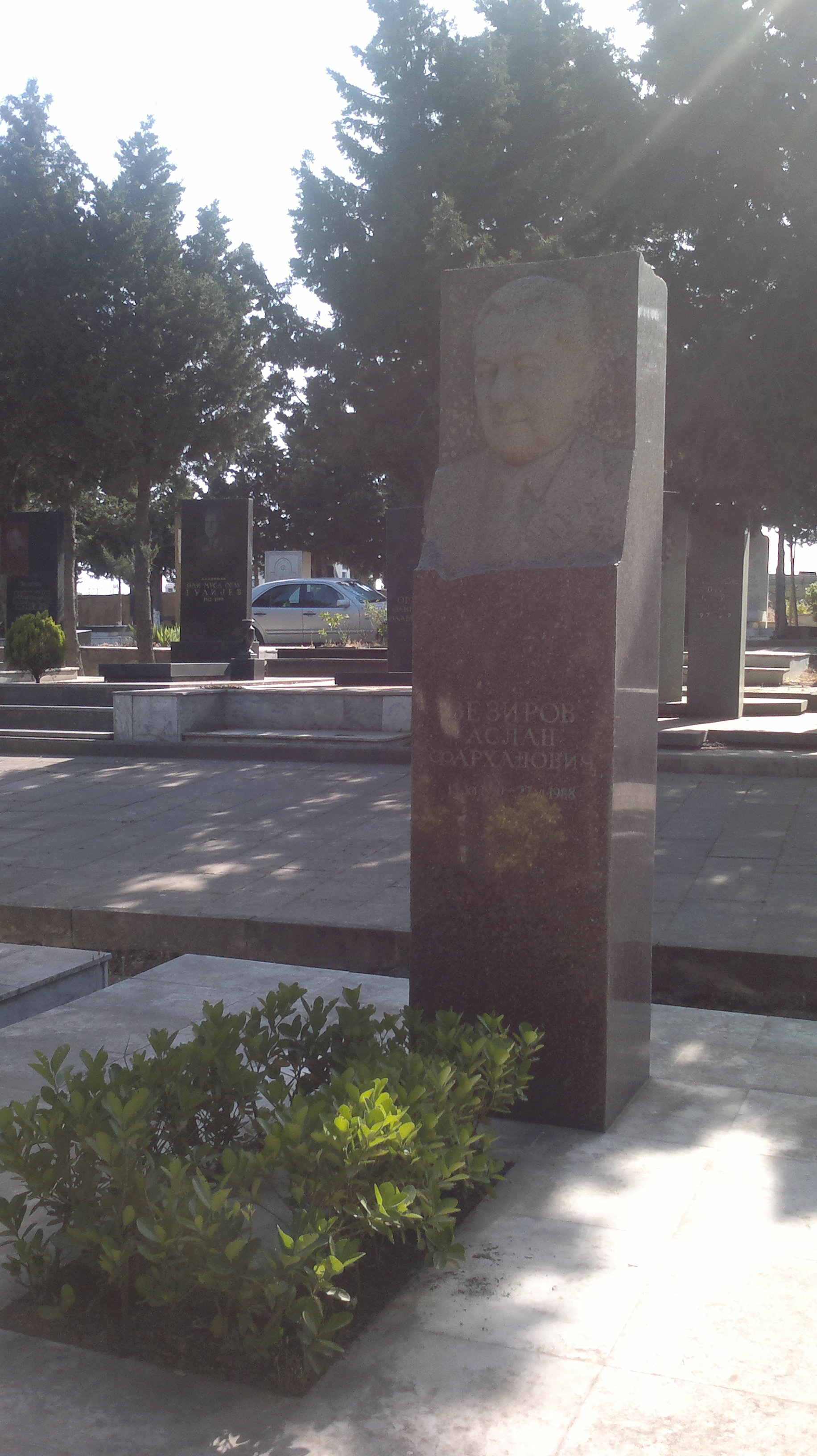 Burial of Aslan Vezirov at II Alley of Honor (Azerbaijan)